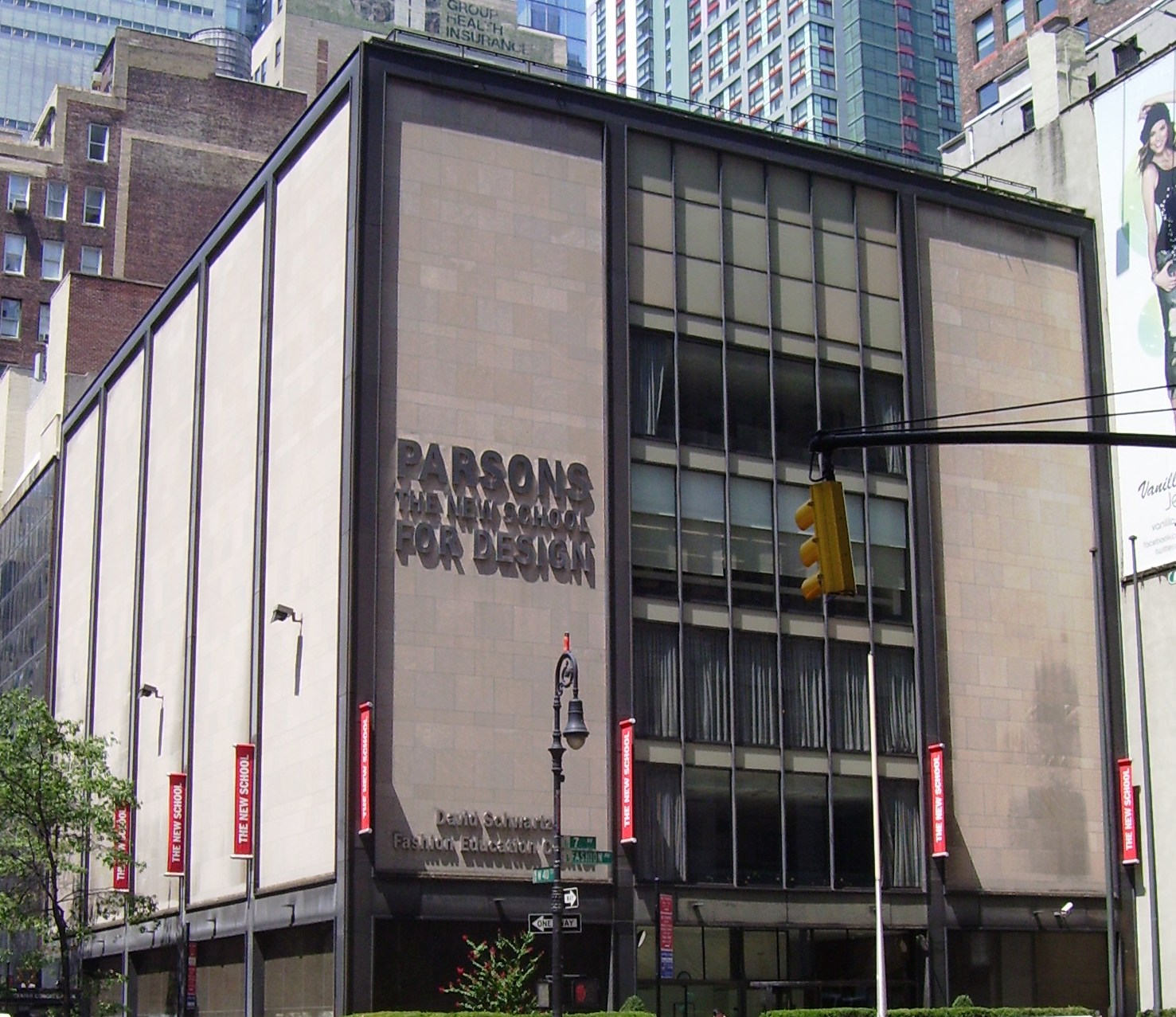 The David Schwartz Fashion Education Center of Parsons: The New School for Design, at 560 Seventh Avenue at the corner of West 40th Street, in the Garment District of Manhattan, New York City, was built in 1963. (Source: NYC GIS map)